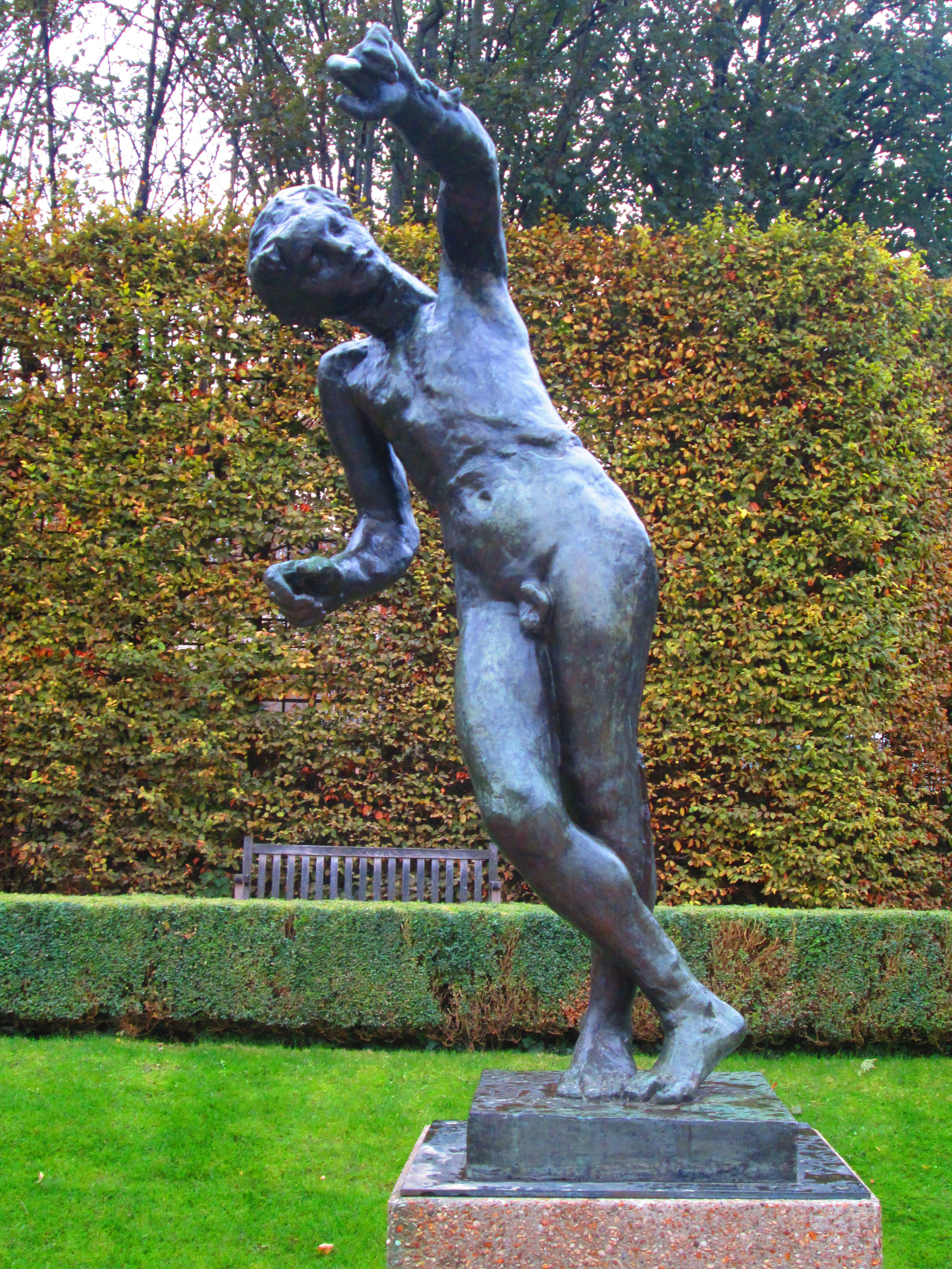 Le gènie du repos èternel {"The Spirit of Eternal Repose") was originally the central motif of a monument to the French painter Pierre Puvis de Chavannes which Auguste Rodin was commissioned to make in 1899, but which was never completed. This version was cast from a model of 1899-1902. (Source: Musée Rodin)